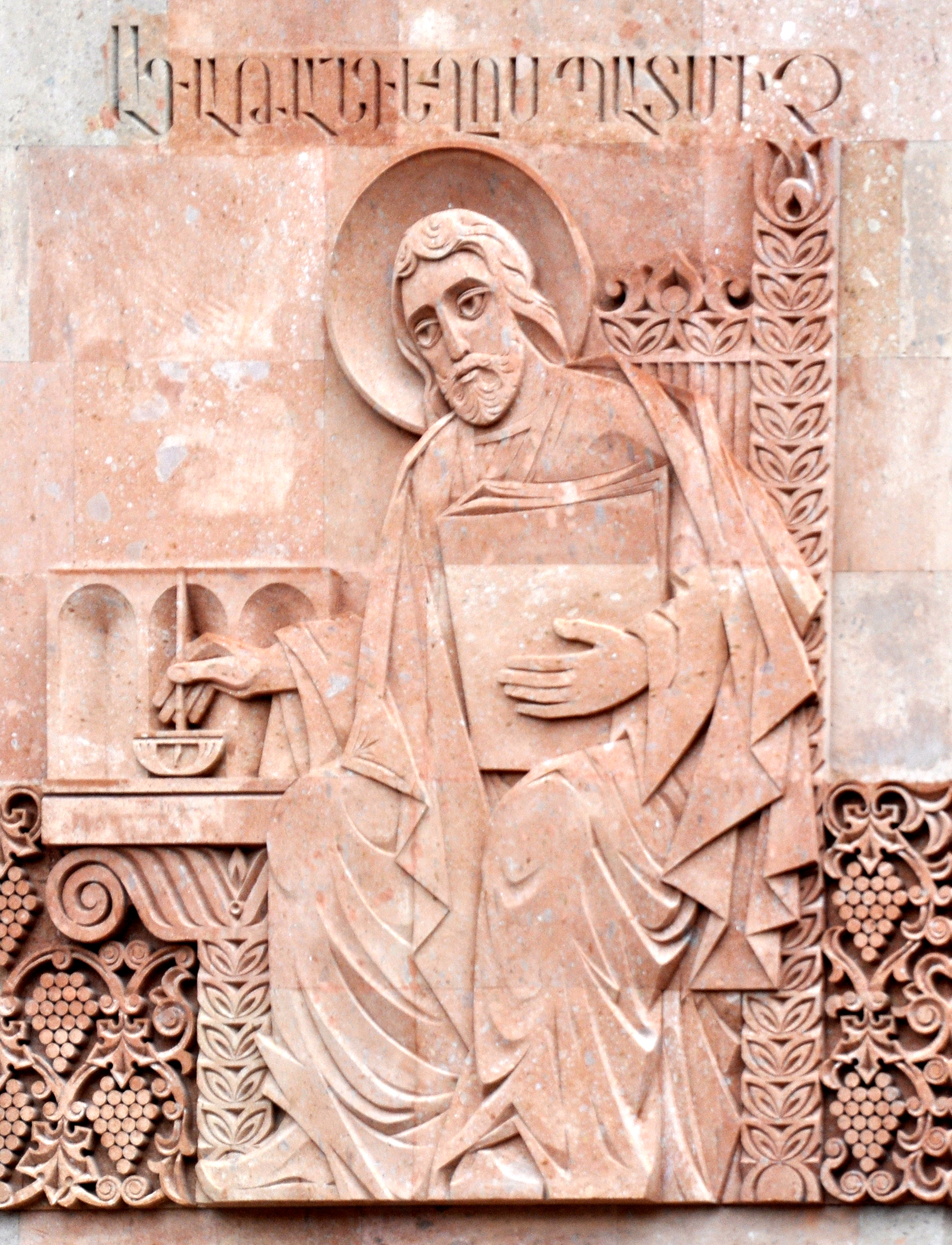 Russia, Moscow, Holy Transfiguration Diocesan Cathedral.